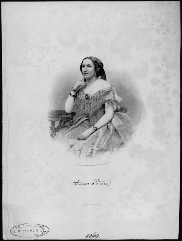 Writer and actress Anna Löhn-Siegel.